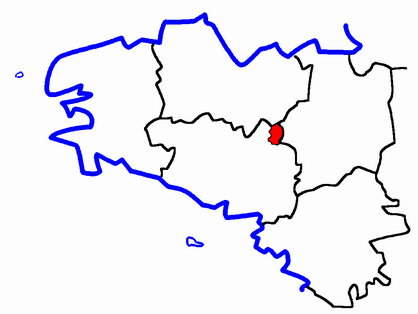 Description: Map for localisazion of cantons of Bretagne region in France Source: made by Hervé Tigier in april 2005 from another large map (published in 1990)